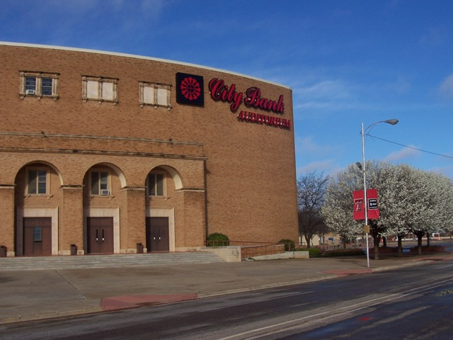 Photo credit: O'Jay Barbee City Bank Coliseum in Lubbock, Texas, U.S., home of Texas Tech University's ice hockey team.